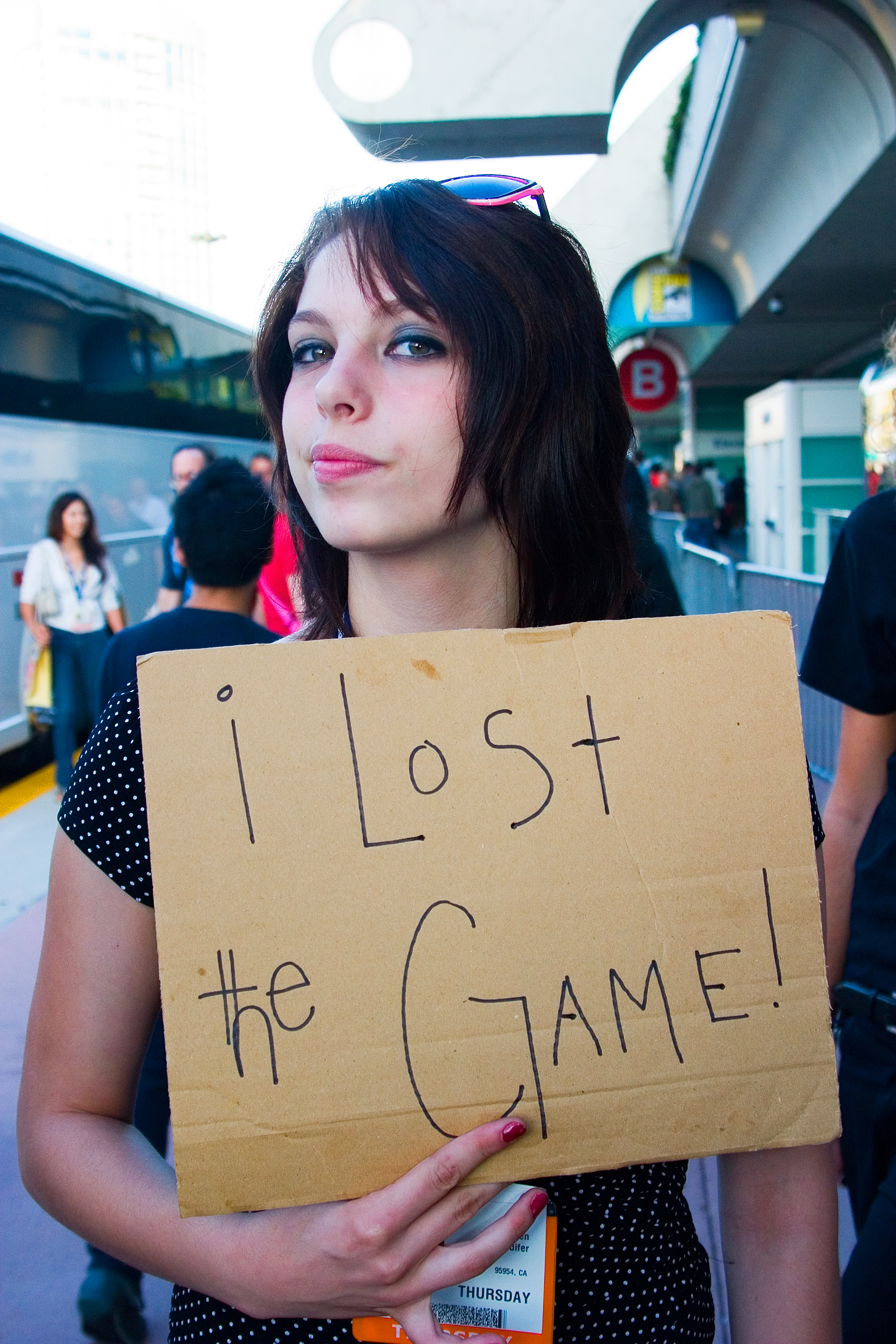 San Diego Comic-Con 2008 day 1. Person pictured is Raven Myle Aurora